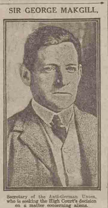 Sir George Makgill, 11th Baronet was a Scottish peer who was also a novelist and right-wing propagandist.